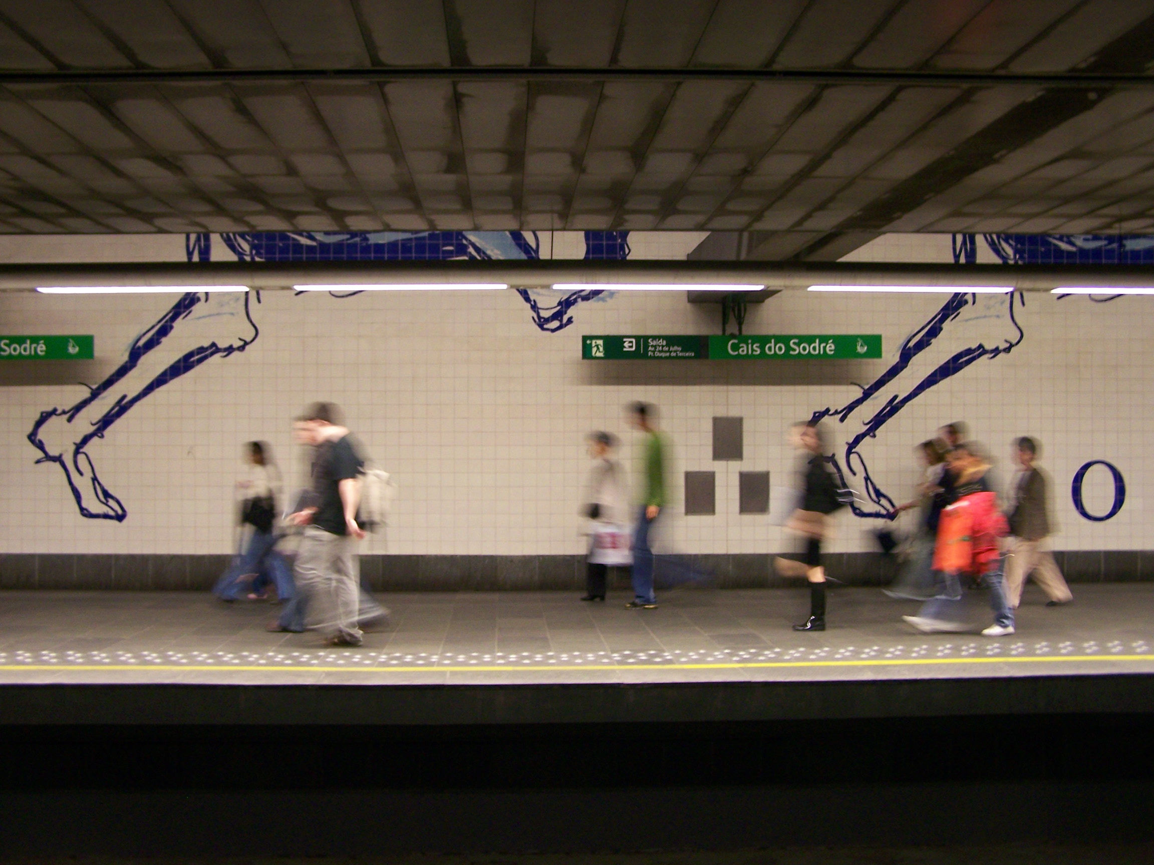 Cais do Sodré metro station, linha verde, Lisbon, Portugal